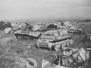 German equipment destroyed in the Mont Ormel area, waiting to be scrapped near the Dives River-Valley